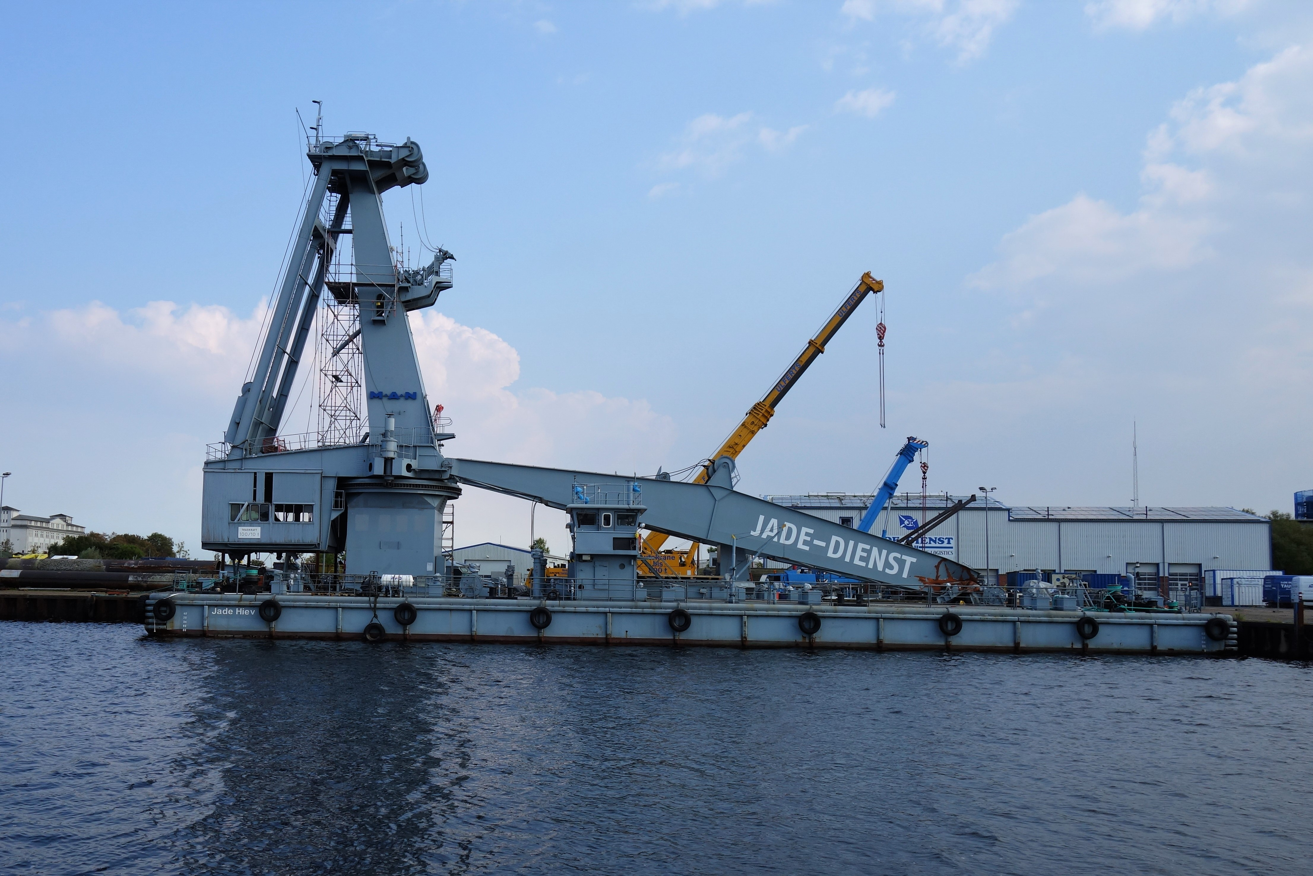 Damaged floating crane Jade Hiev under conversion to a self-propelled pontoon